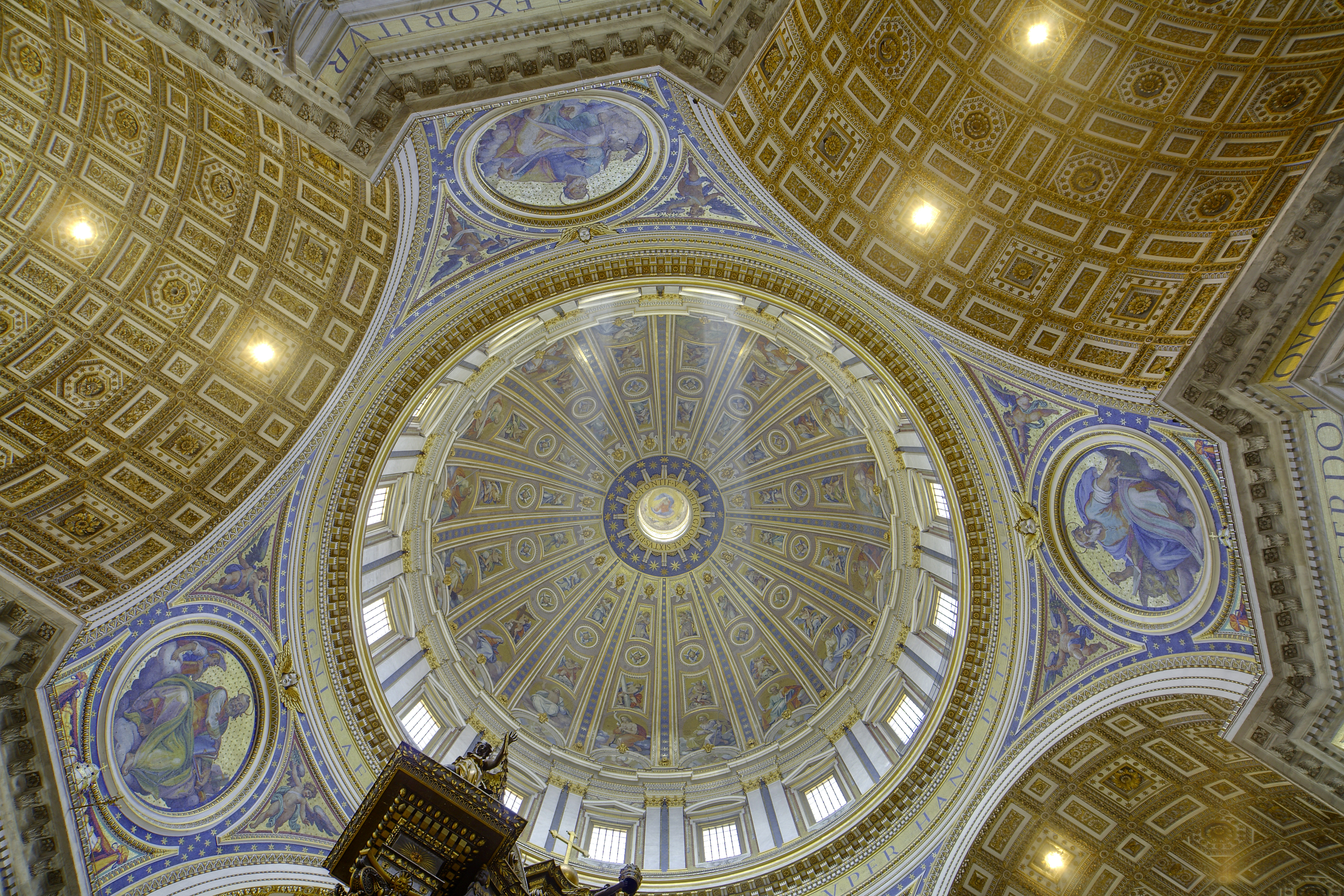 Dome of St. Peter's Basilica, DRI from 3 exposures